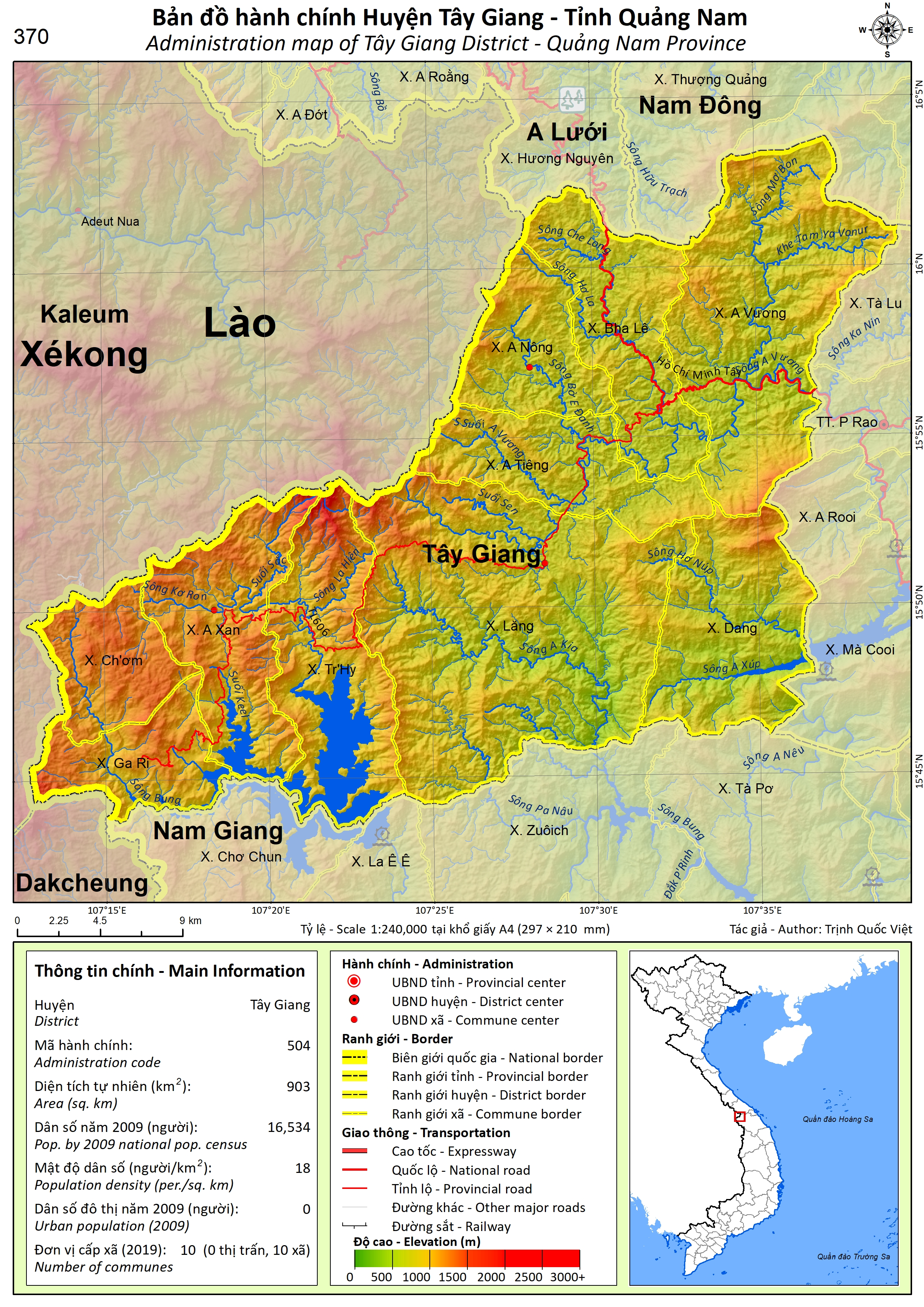 Administration map of Tay Giang District, Quangnam Province